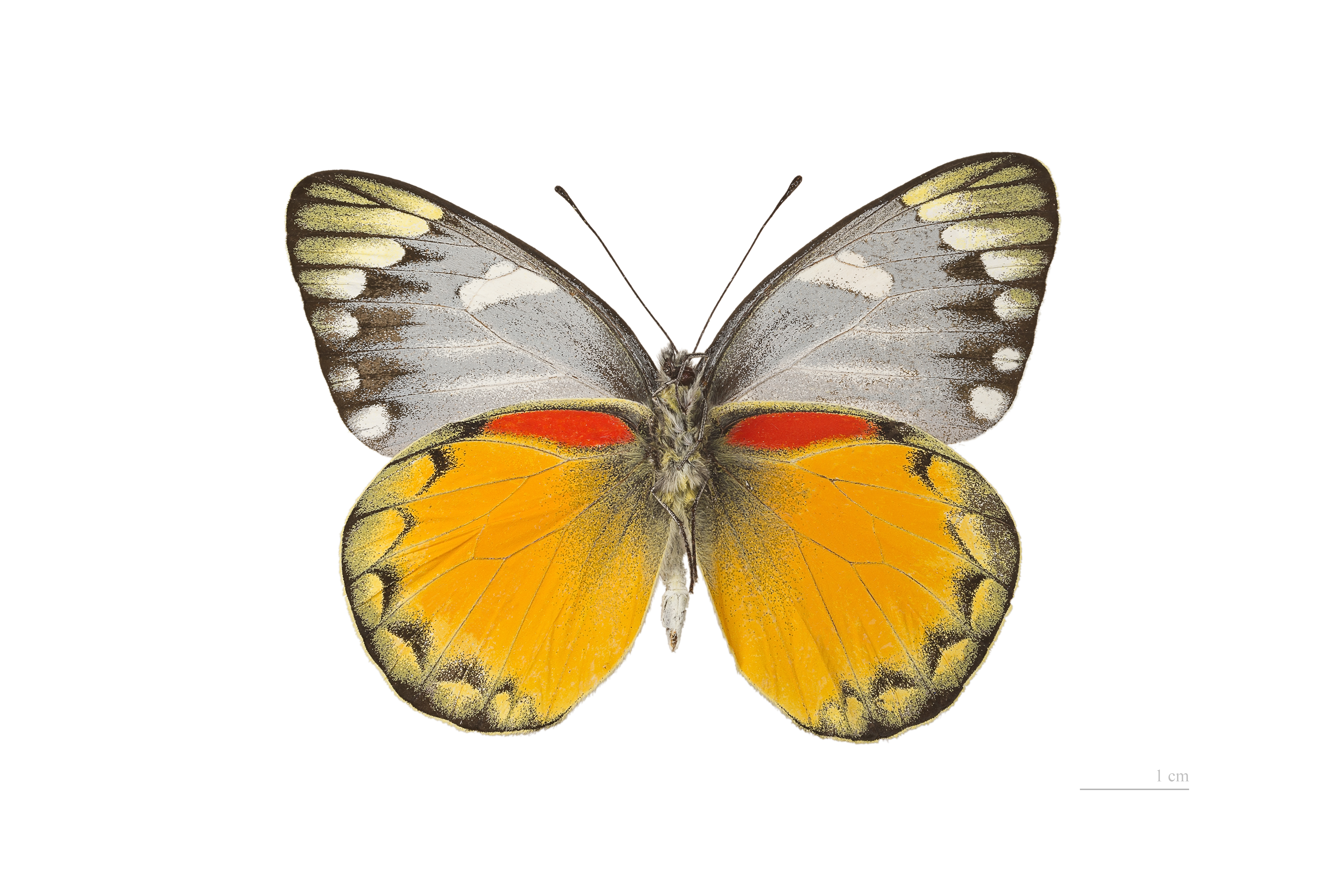 ♂ - △ Ventral side Locality: Flores Indonesia (TL).